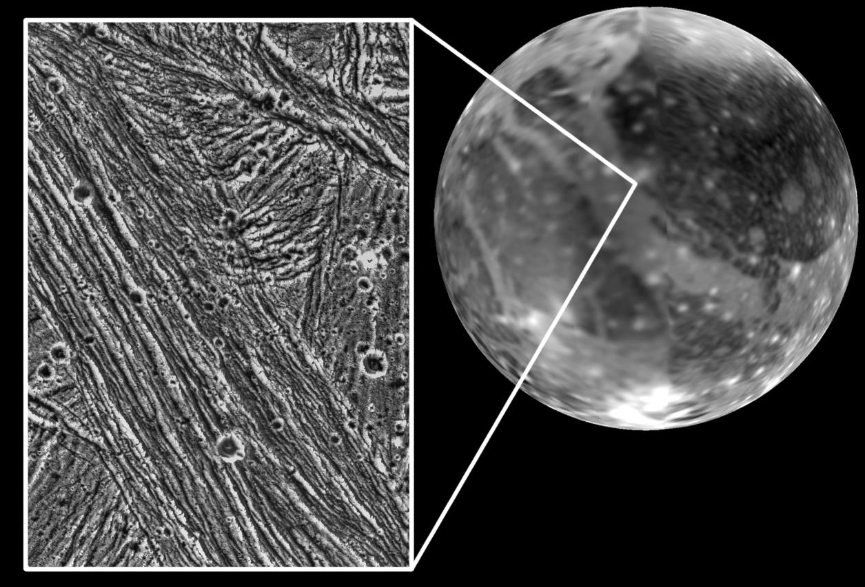 View of a portion of the Uruk Sulcus region on Ganymede showing how the fine details of the grooved terrain that are the principal features in the brighter regions of this satellite relate to the global view of the moon. North is to the top of the inset picture and the sun illumination is almost overhead. The global view is a Voyager picture taken in 1979.